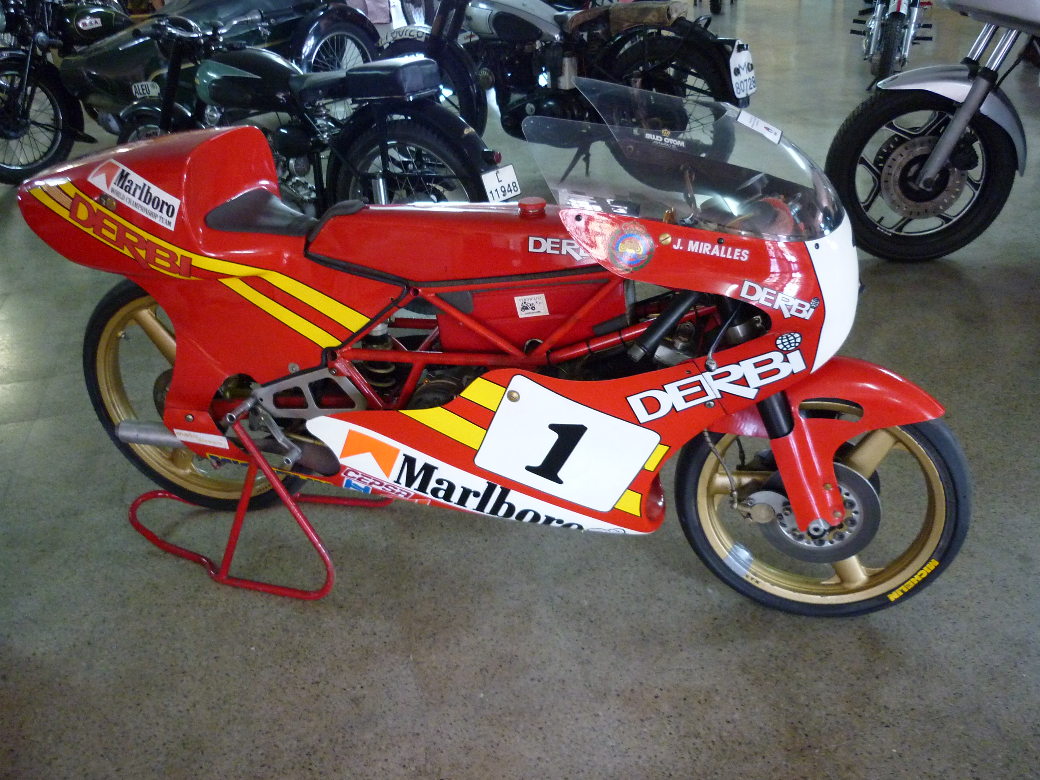 Derbi GP 80cc 1987. Europe Champion in 1987 ridden by Julian Miralles. Isern Motorcycle Museum, Mollet del Vallès (Catalonia).